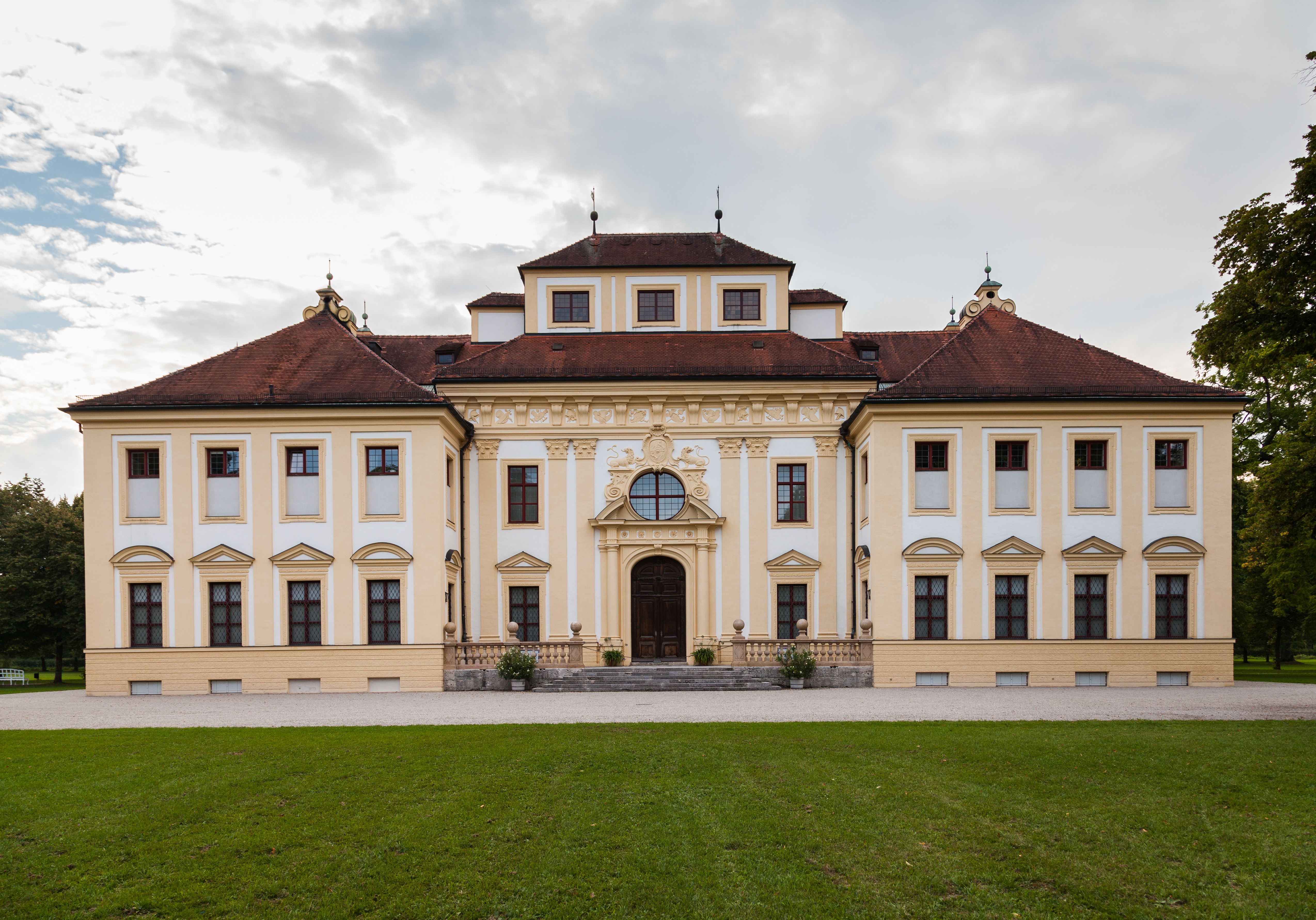 New Schleissheim Palace, Oberschleissheim, Germany This is a photograph of an architectural monument.